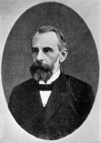 Scan of a picture of German scientist Friedrich Konrad Beilstein (who died in 1906)